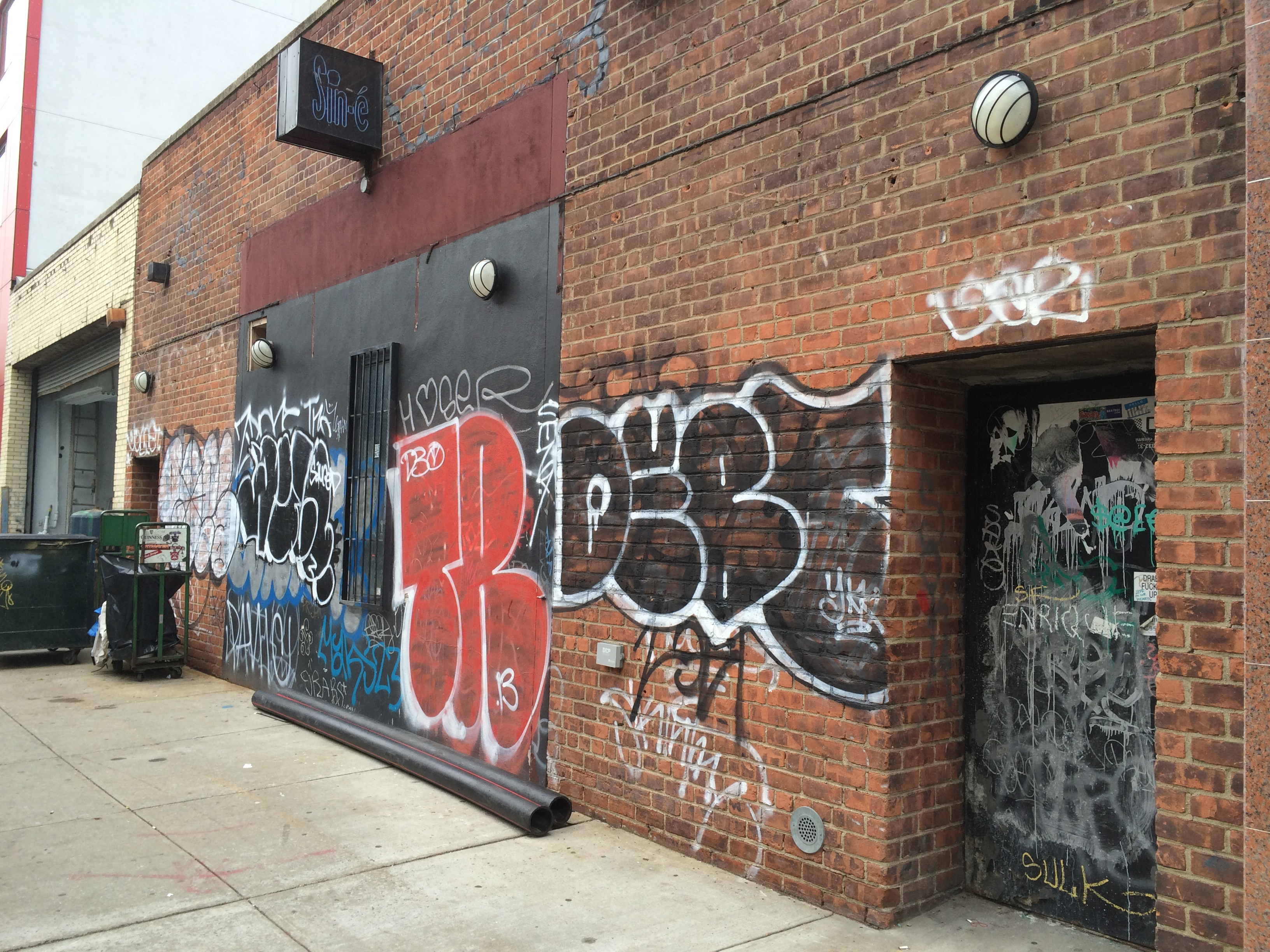 Place where Jeff Buckley started his career in 1992. Closed now.